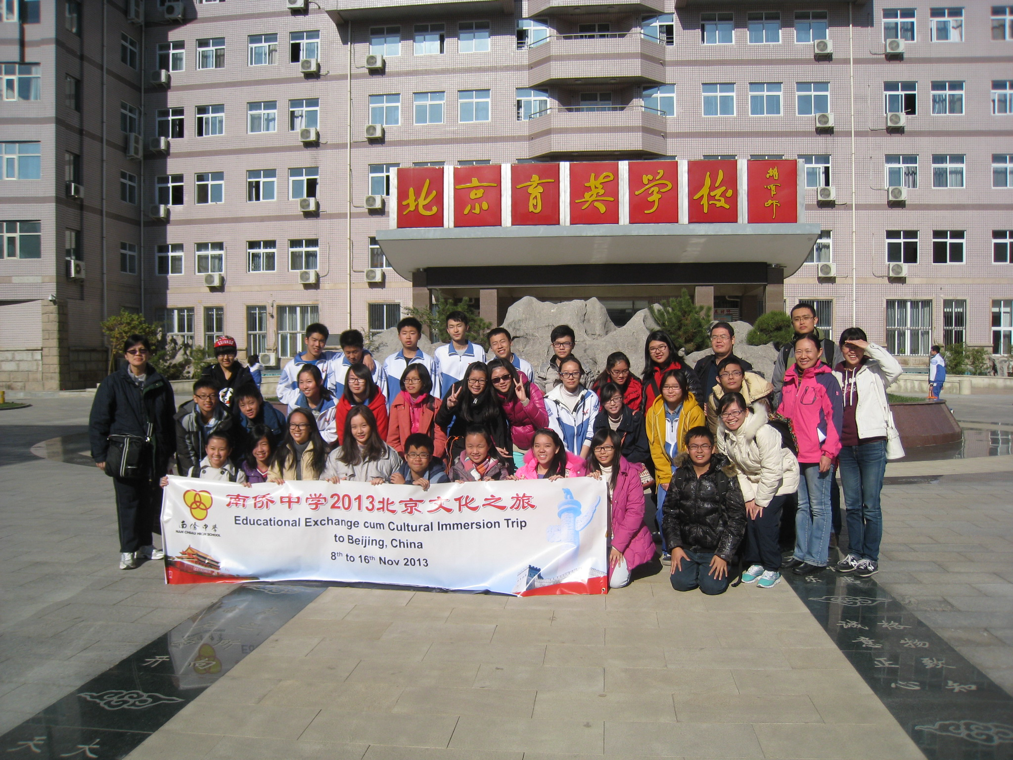 A batch of students on Nan Chiau High School's annual immersion trip to Beijing Yuying Middle School, in 2013. The immersion trip is part of the institution's Global Classroom Programme.